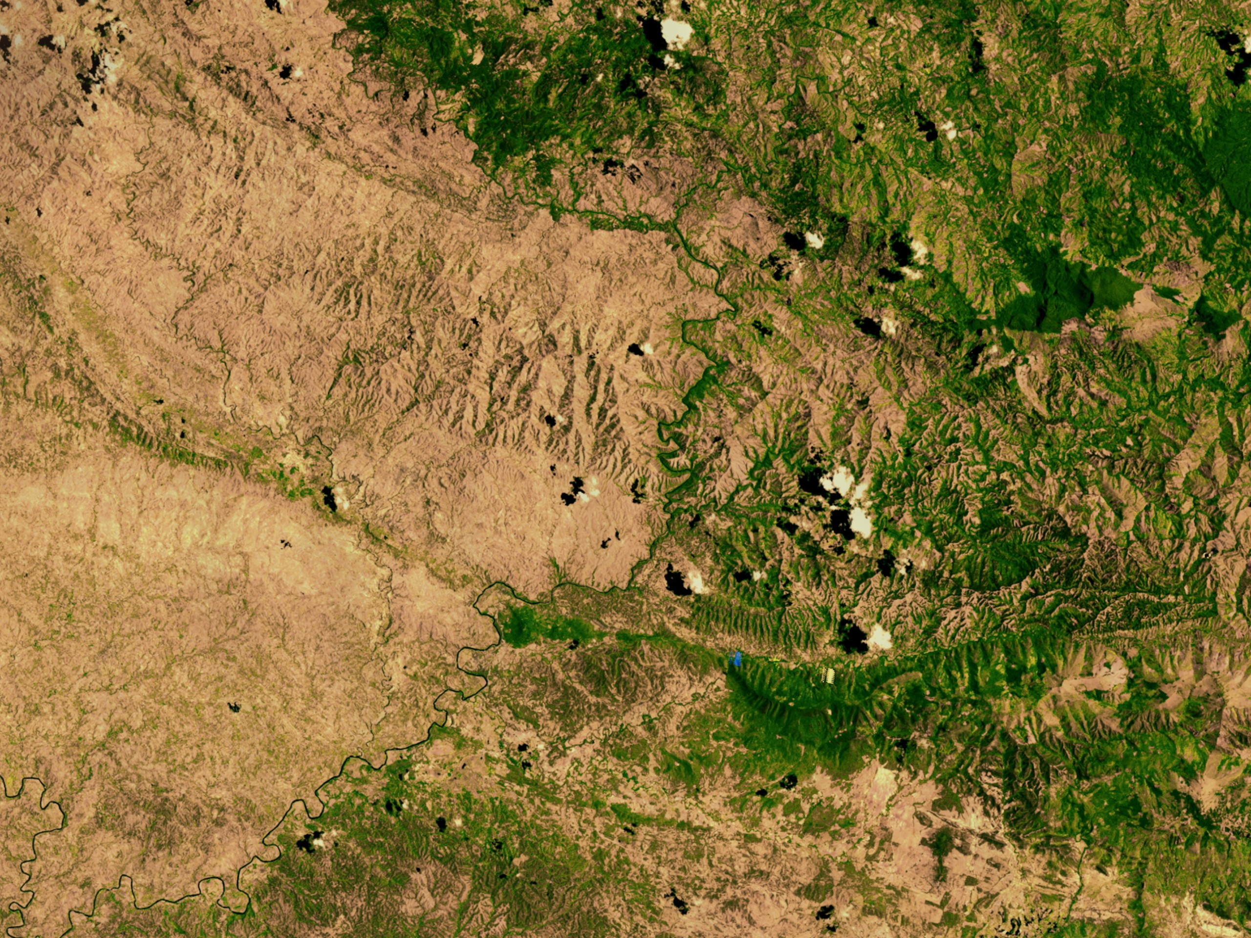 Satellite image showing deforestation in Haiti, Haiti-Centre. This image depicts the border between Haiti (left) and the Dominican Republic (right).